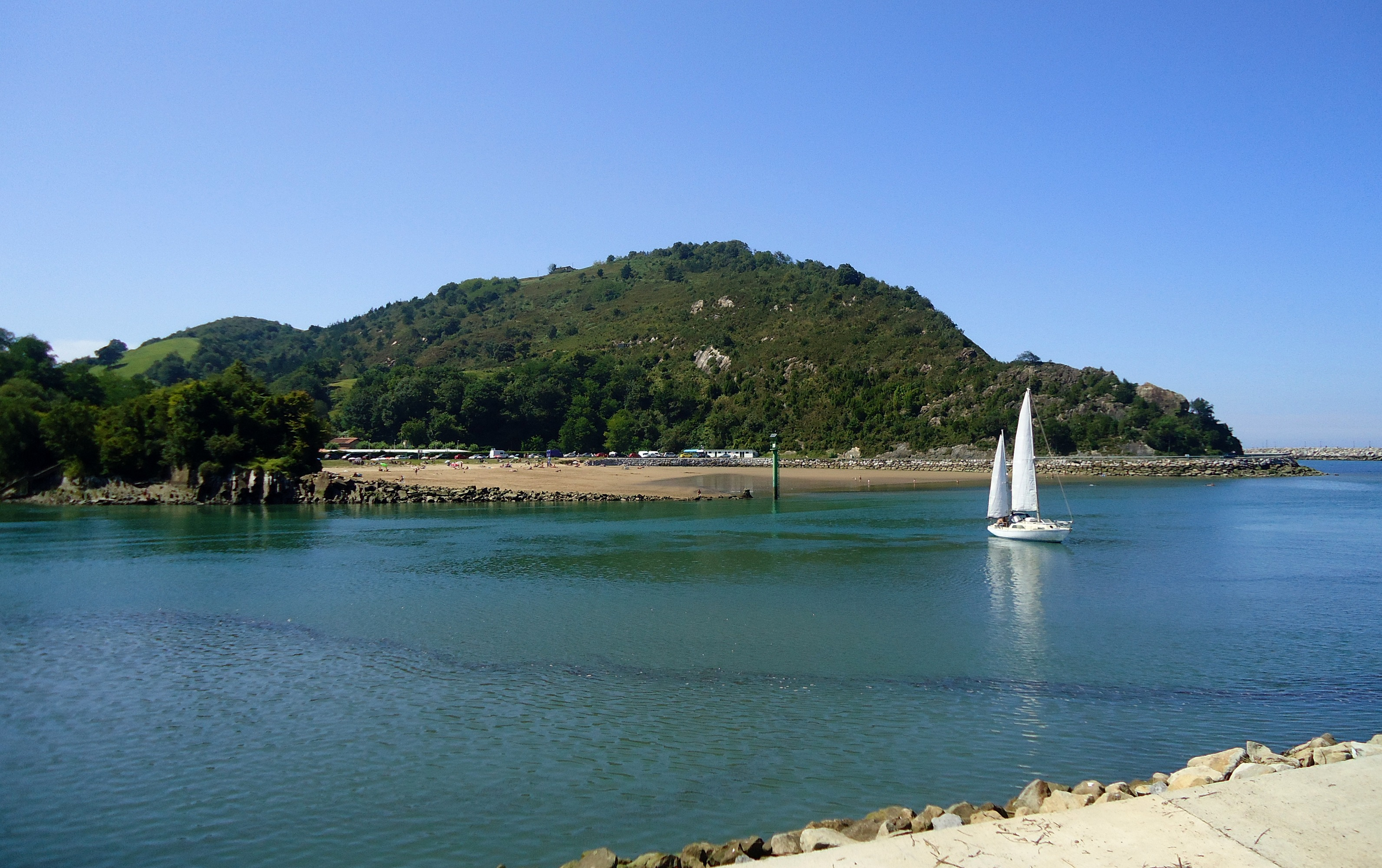 Oribarzar beach in the Oria river estuary (Gipuzkoa, Basque Country)